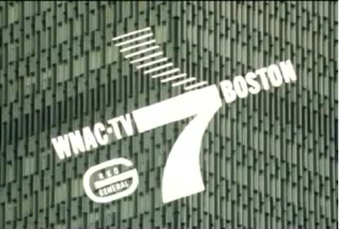 1960s slide from RKO General